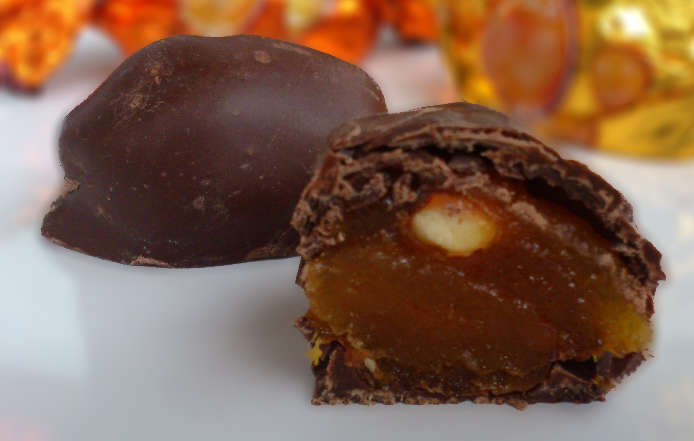 Chocolate-coated dried apricot with an almond in the middle (Russian confectionery)